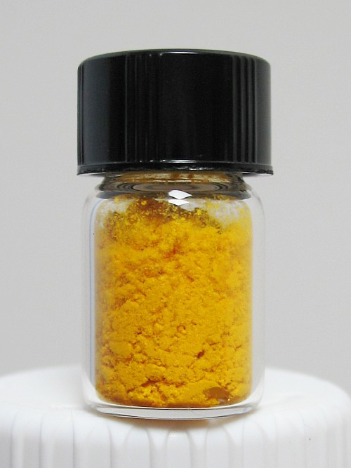 Folic acid